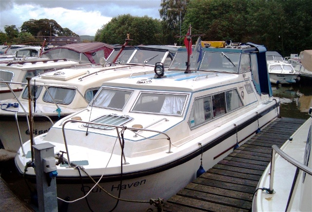 copyright Chris Kirk